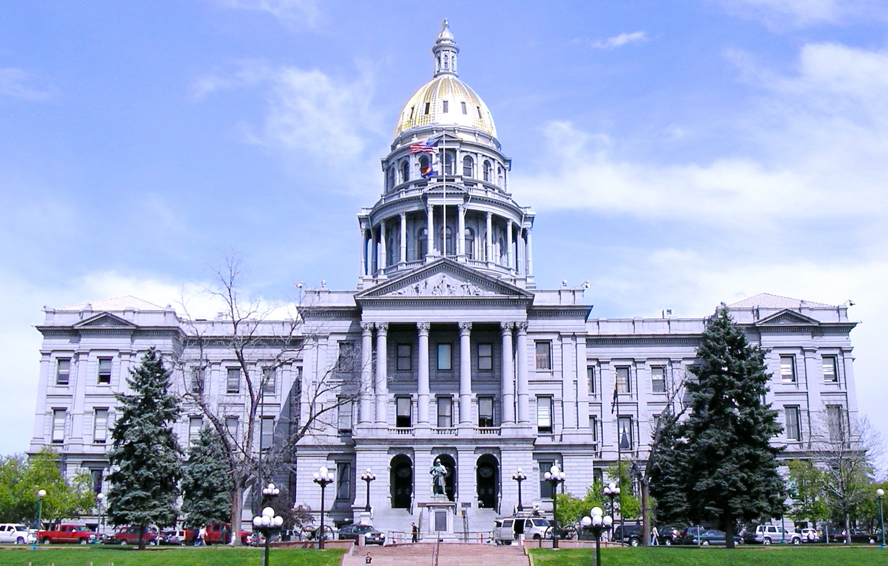 Colorado state capitol in downtown Denver. Taken by myself and released into the public domain.